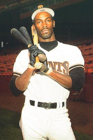 Professional baseball player Chili Davis